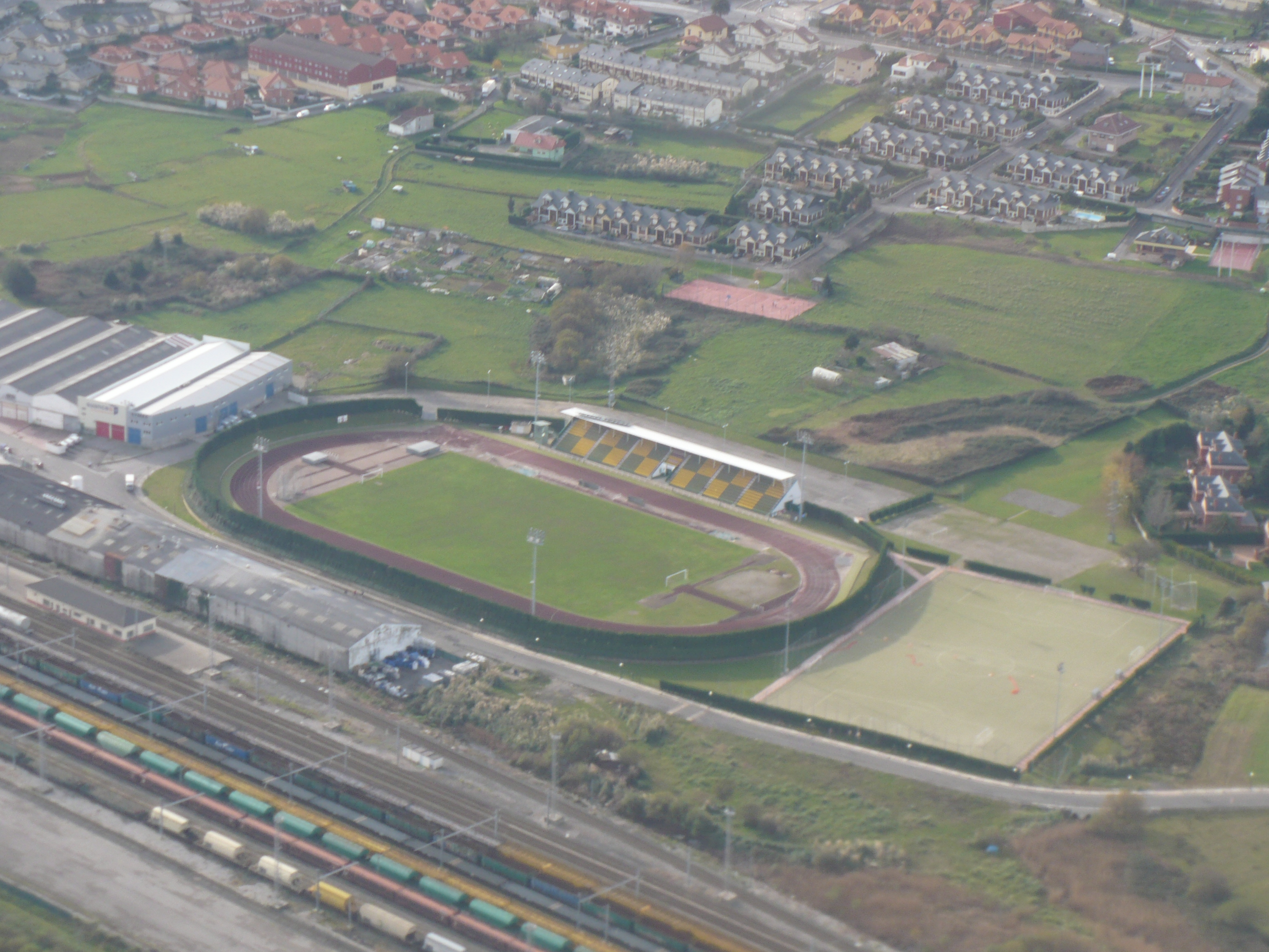 La Maruca stadium (Muriedas, Cantabria), home to Velarde CF